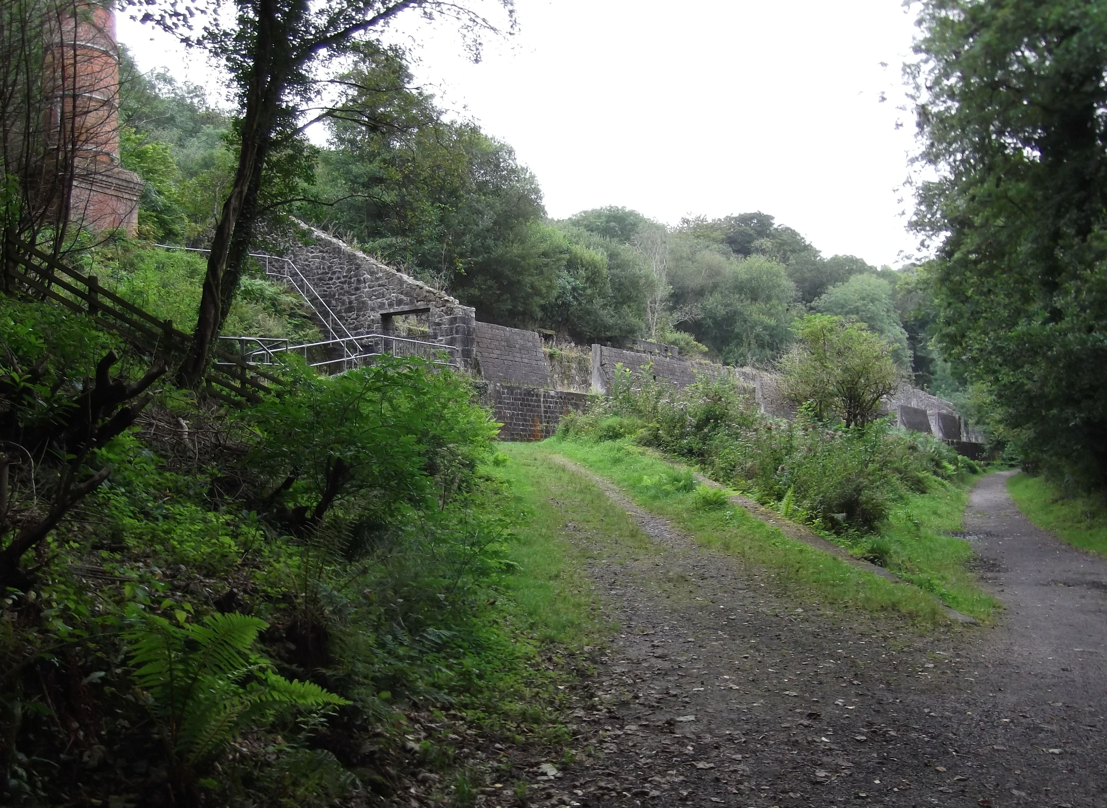 Central Cornwall Kiln (remains of) at Pontsmill, Cornwall